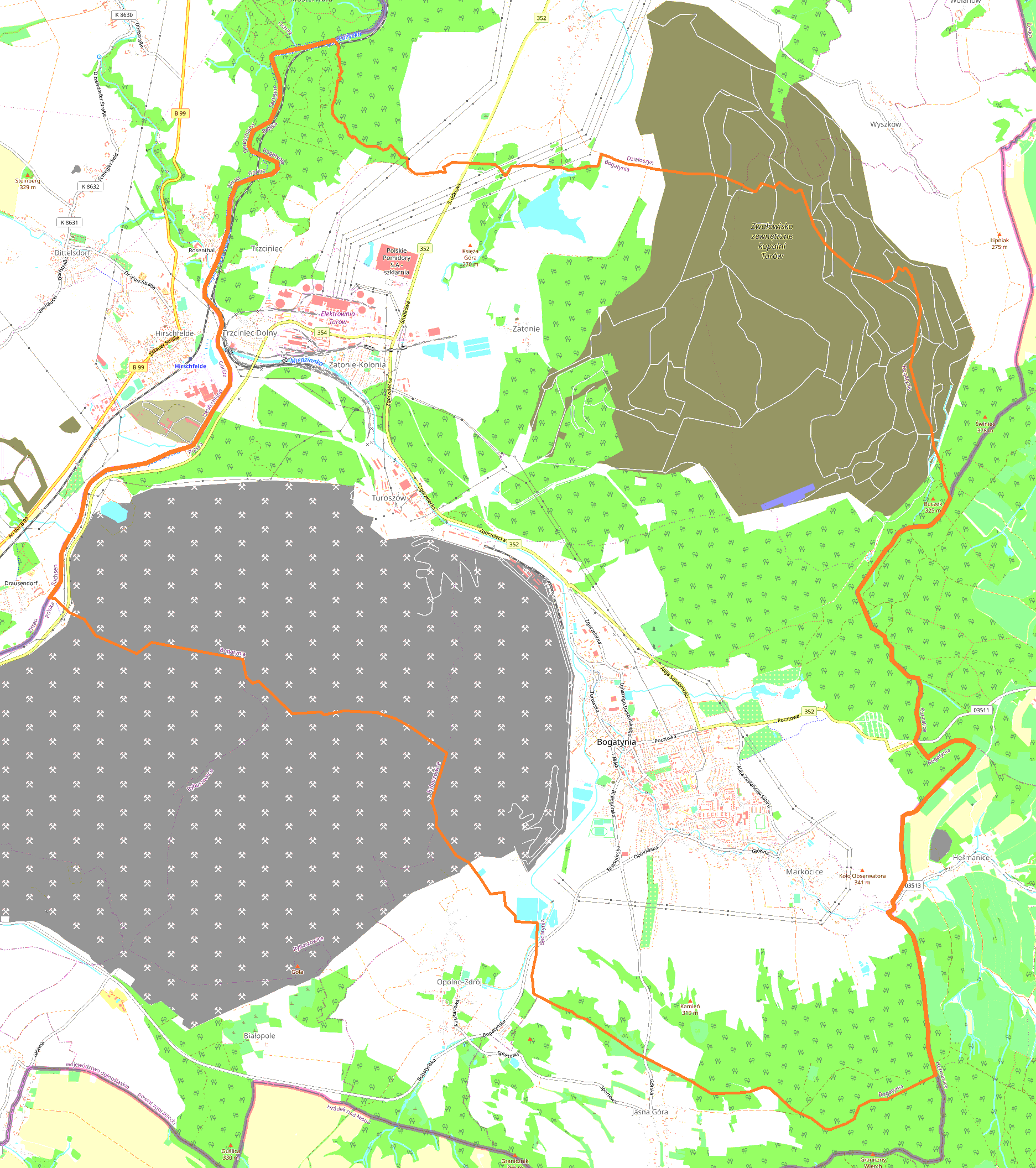 Map of Bogatynia, Poland This map of Bogatyni was created from OpenStreetMap project data, collected by the community. This map may be incomplete, and may contain errors. Don't rely solely on it for navigation.